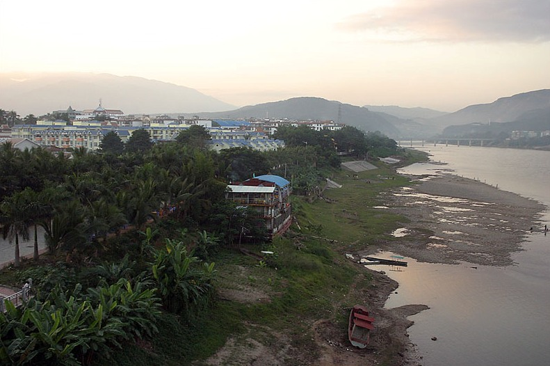 Looking west along the Mekong river from the main bridge at Jinghong, Yunnan, China. (Photographer: prat, 2004-11-20).